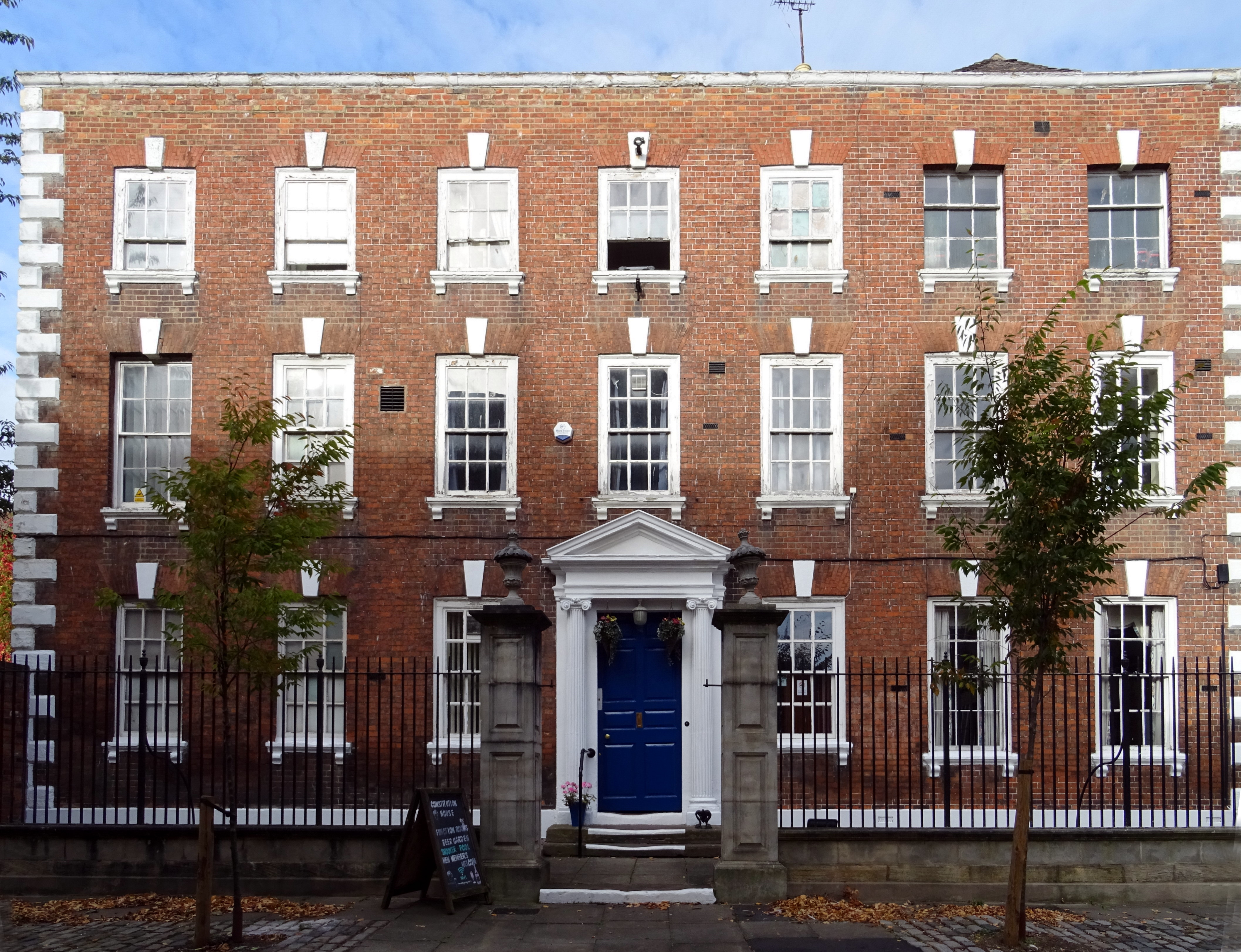 This is a photo of Winston Hall, Gloucester